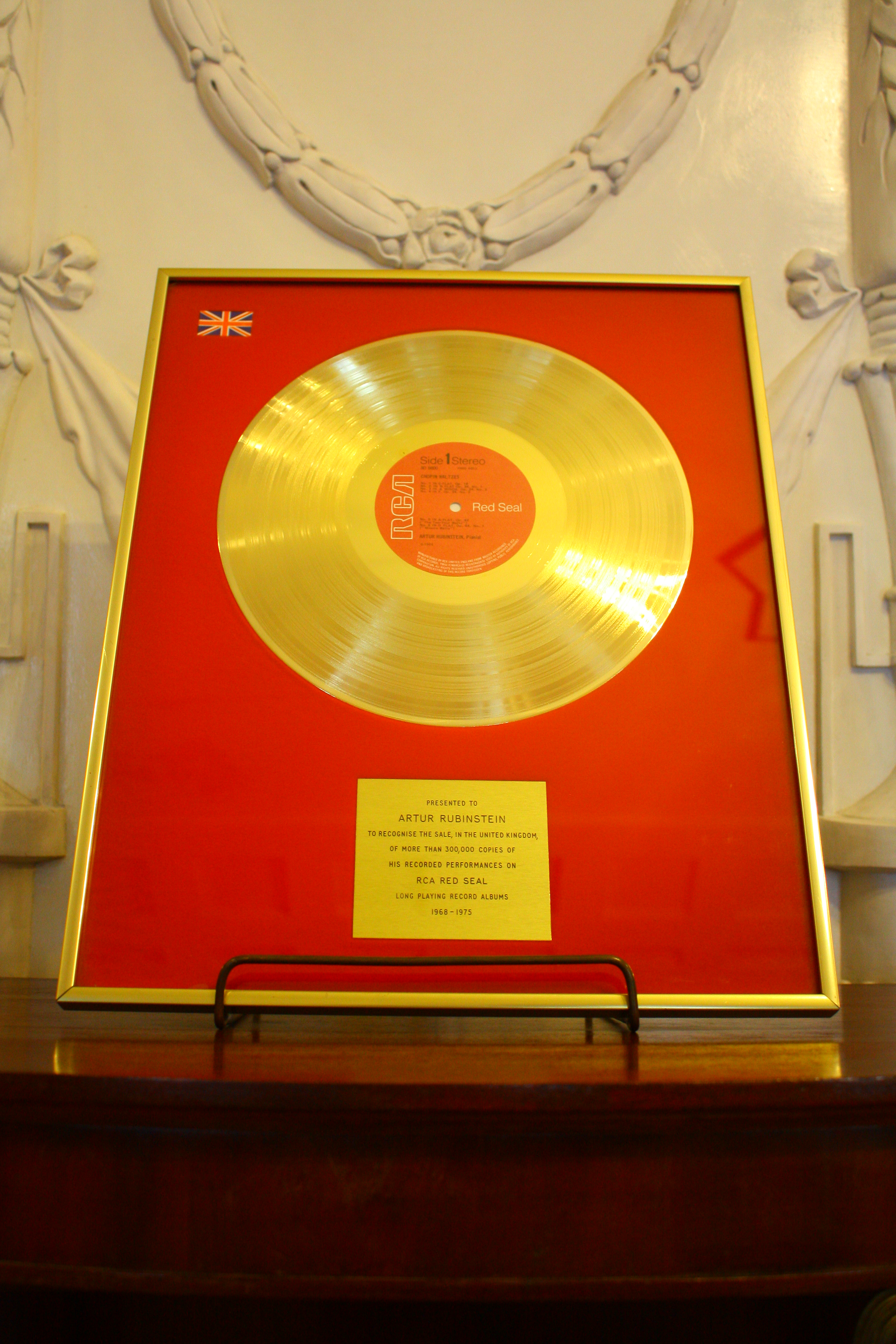 On the image: presented to Artur Rubinstein to recognise the sale, in the United Kingdom, of more than 300,000 copies of his recorded performances on RCA Red Seal Records long playing record albums 1968 - 1975